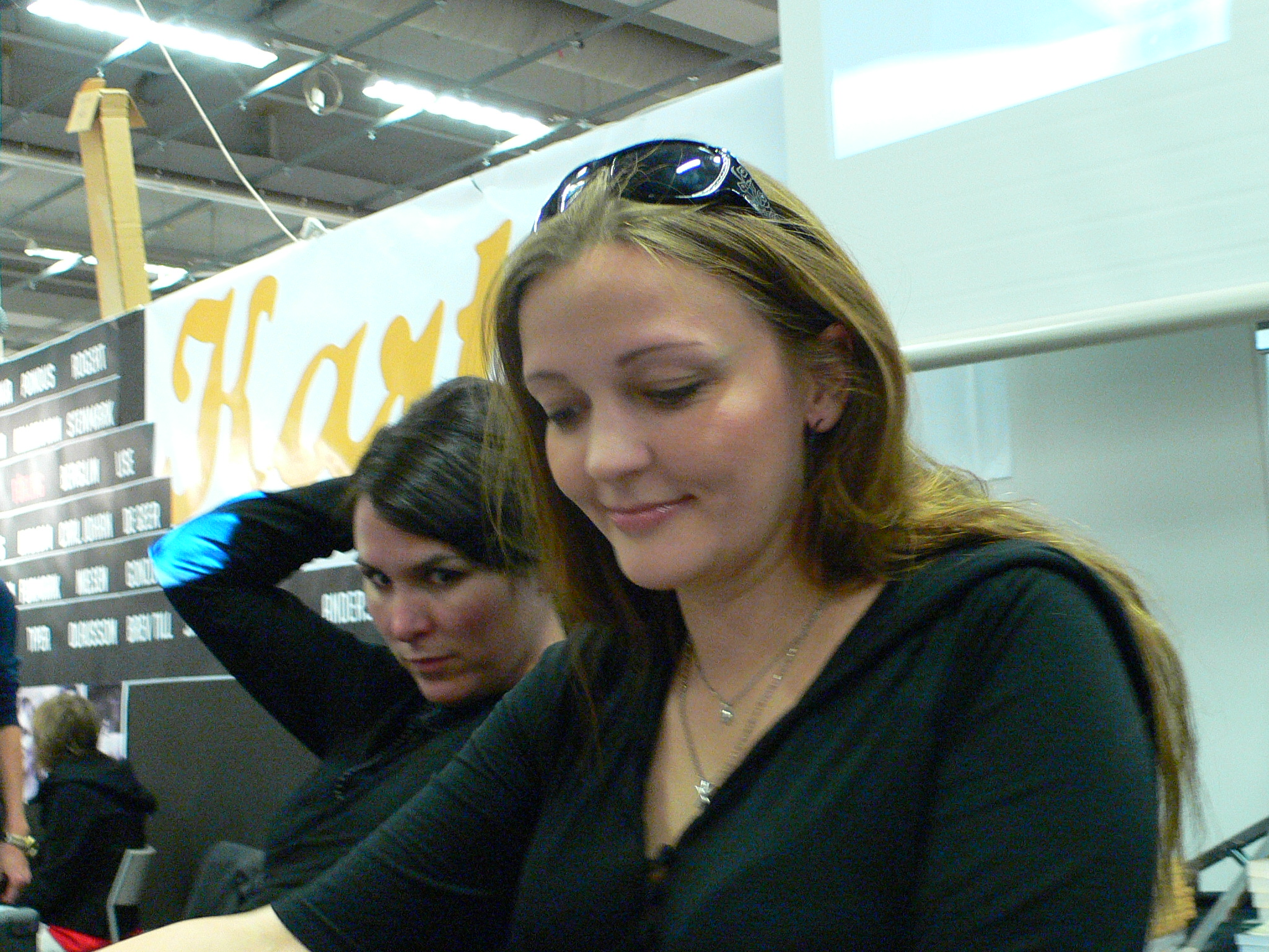 Lise Myhre at the 2007 Gothenburg Book Fair. In the background, Nina Hemmingsson.